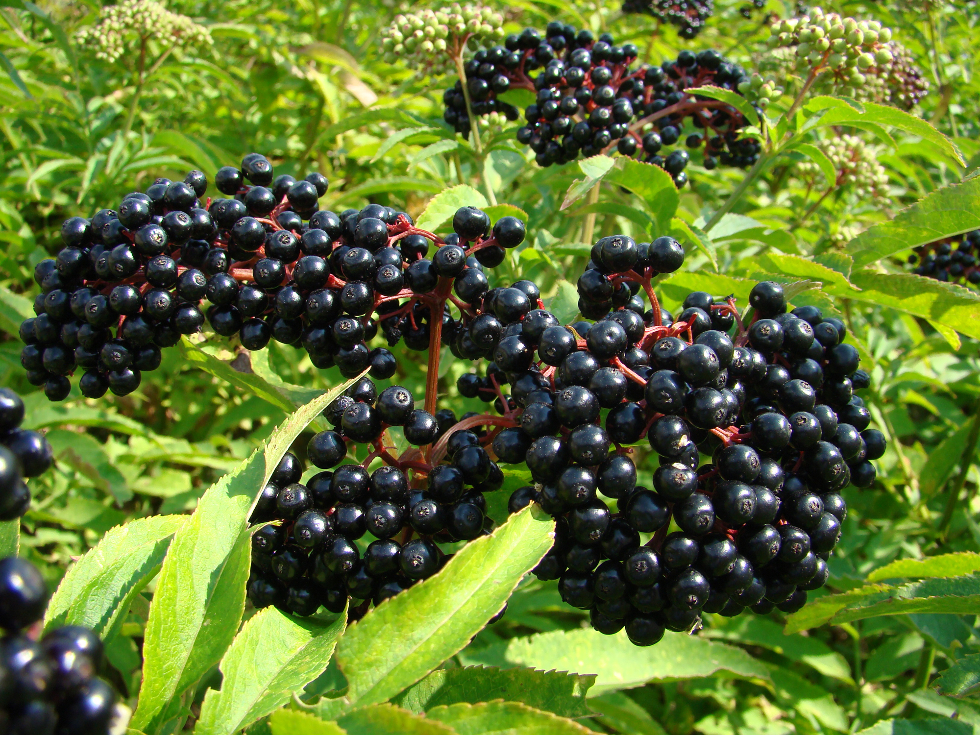 Sambucus berries